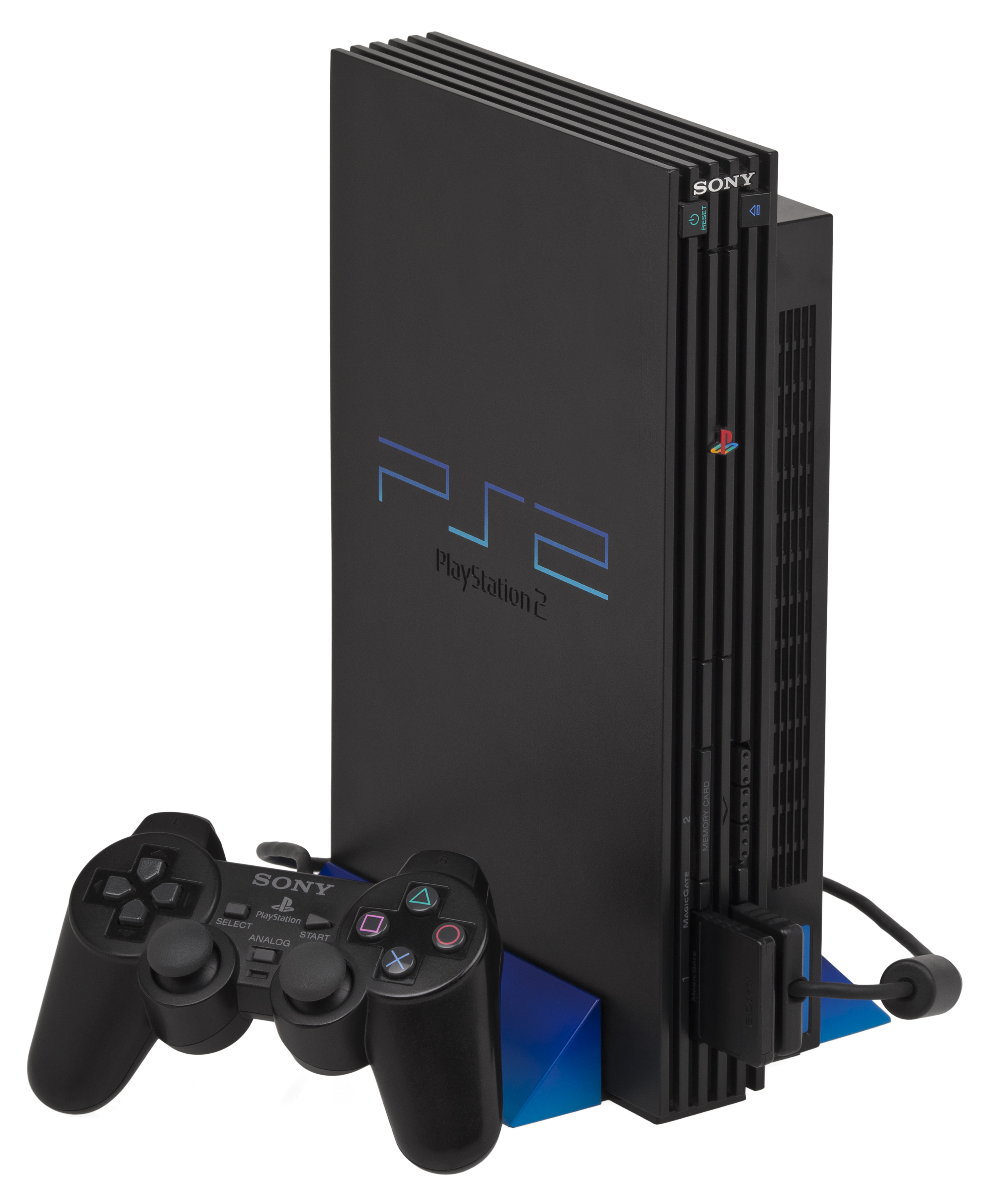 A Sony PlayStation 2, model SCPH-30001. Shown with 8MB memory card and DualShock 2 controller. This is the JPG version.